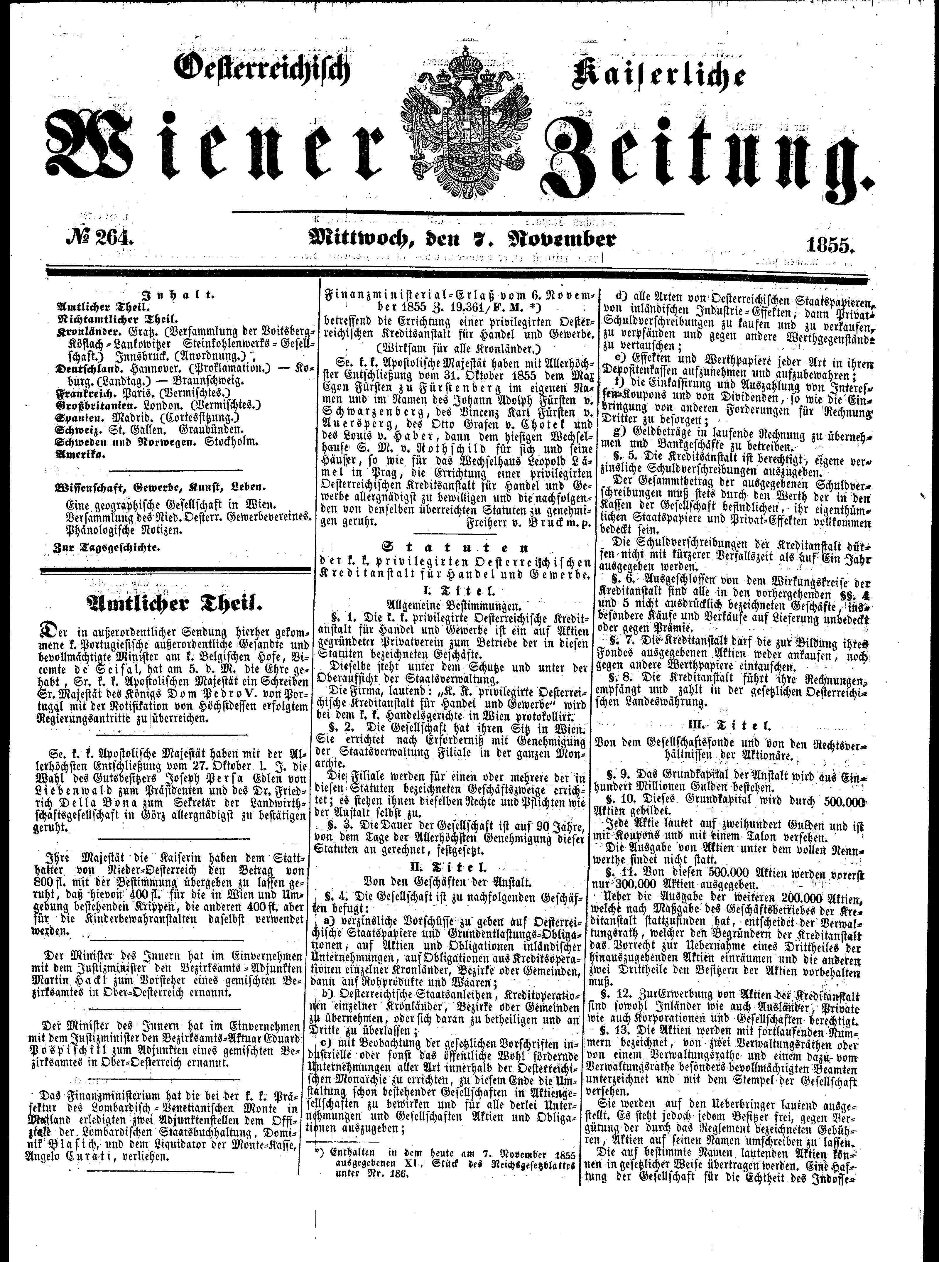 Official announcement of the founding of the Creditanstalt banking company, page 1 of 4.